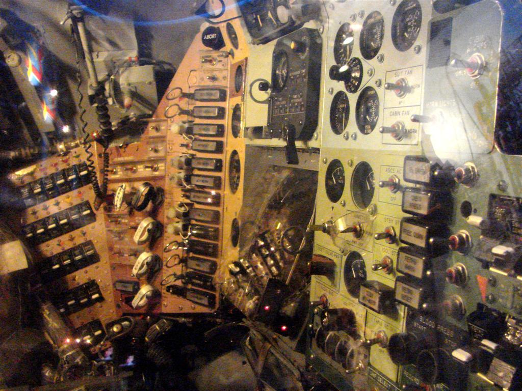 Mercury Sigma 7 spacecraft on display at the Astronaut Hall of Fame, Titusville, Florida, September 21, 2007.